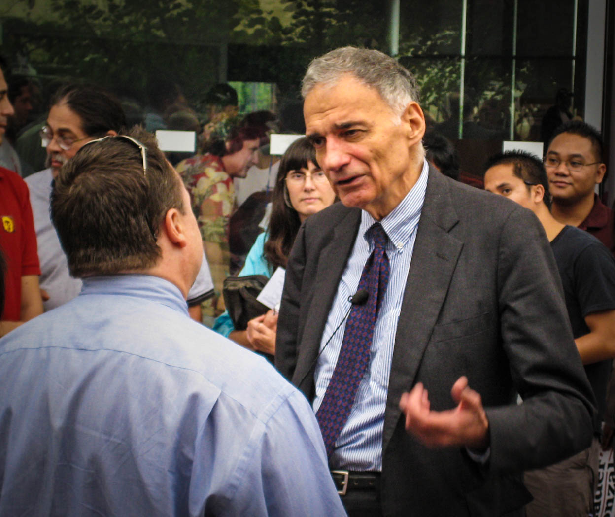 Ralph Nader, independent candidate for President of the United States, speaks to a reporter after giving a talk at the University of California, San Diego in La Jolla, California on September 27, 2008. Taken by Matt Popovich and released under a CC-BY-3.0 license.